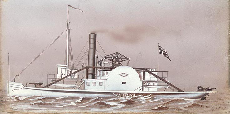 Drawing of USS Calhoun (1851)